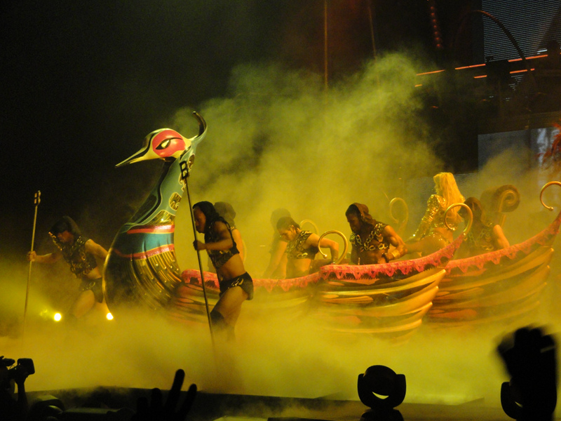 Spears performing "Gimme More" at the Femme Fatale Tour.